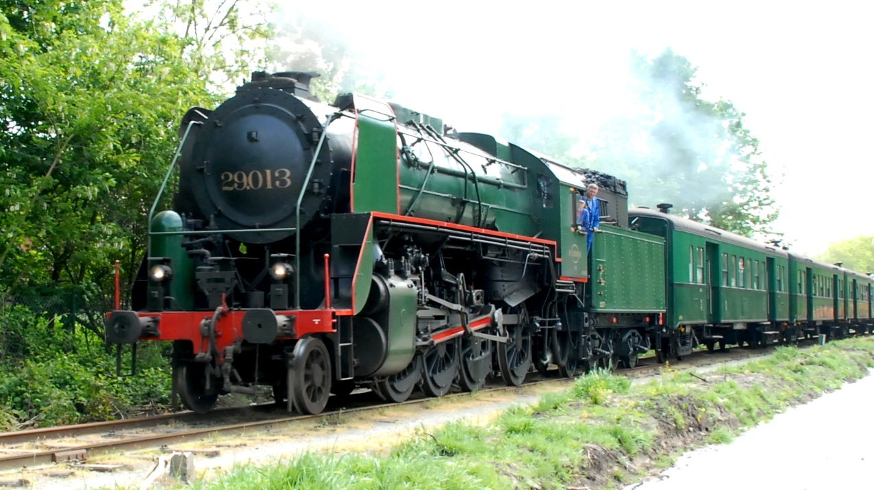 Belgian State Railways (SNCB-NMBS) preserved steam loc 29.013, as seen on the Stoomcentrum Maldegem heritage railway at Eeklo